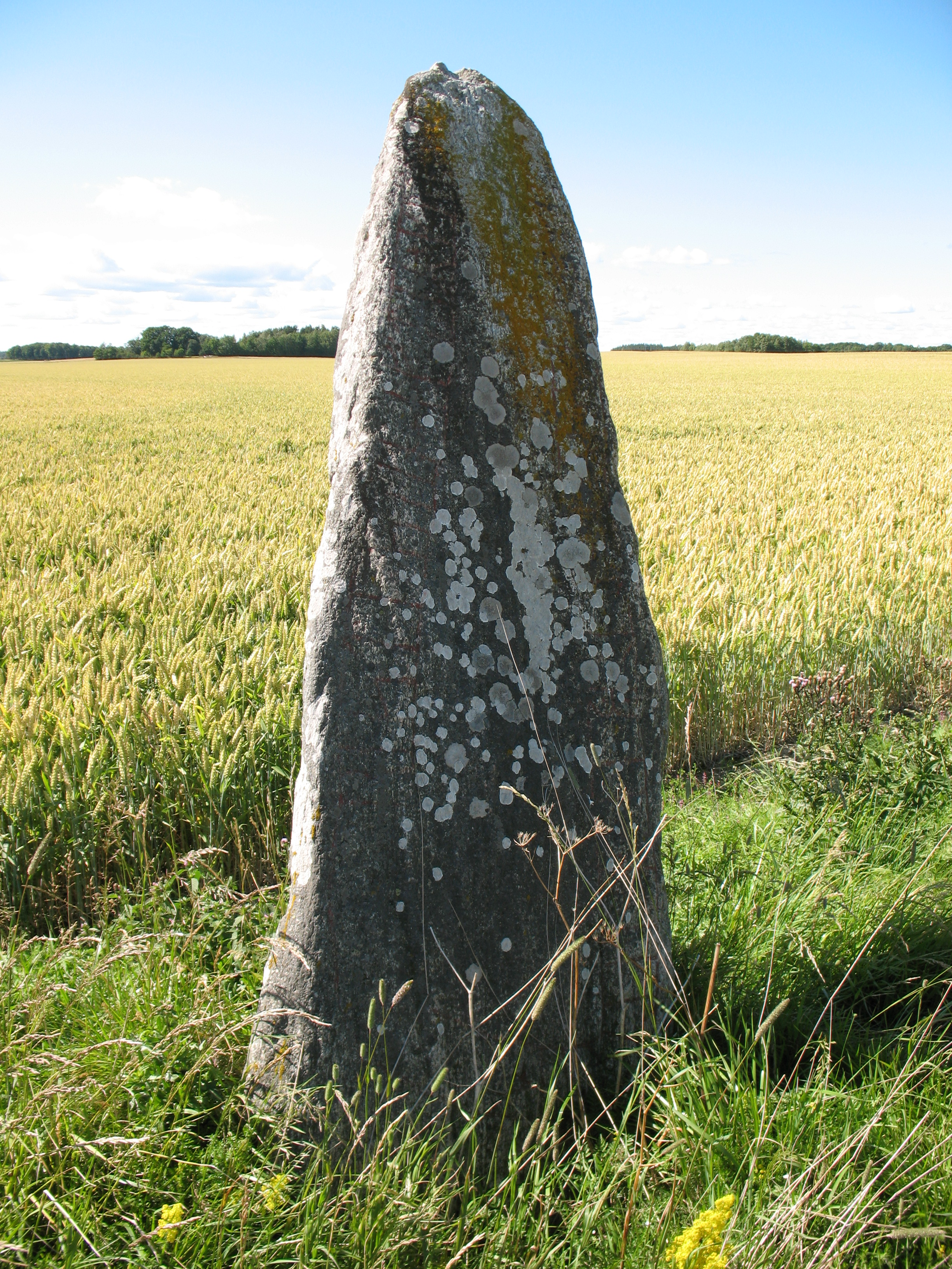 Runestone (Vg 20) in Västanåker, Gösslunda parish, Kålland hundred, Lidköping municipality, former Skaraborg county, Västergötland, Västra Götaland county, Sweden.